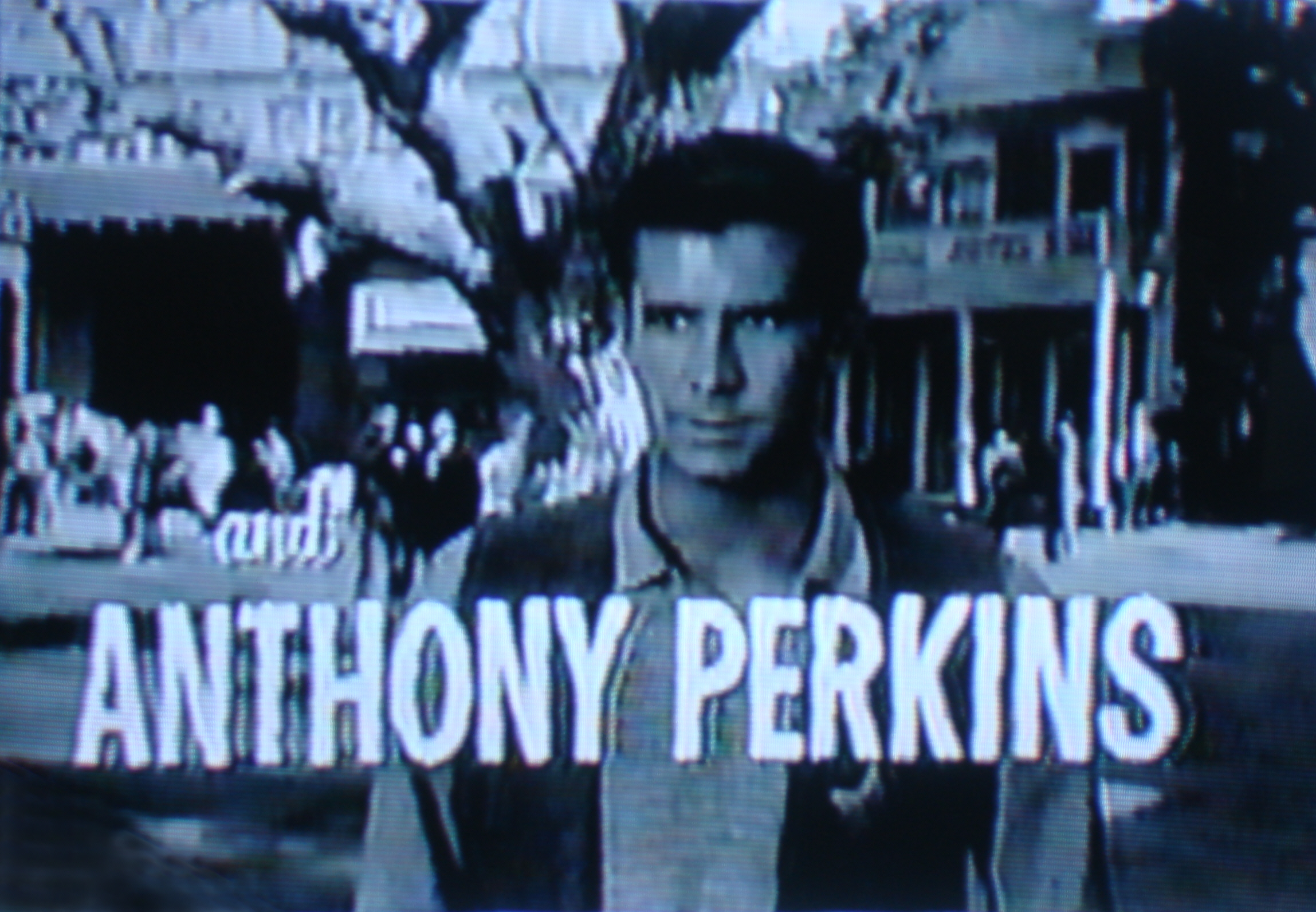 Cropped screenshot of Anthony Perkins from the Trailer The Tin Star (1957)